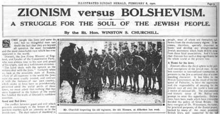 Illustrated Sunday Herald article by Winston S. Churchill.